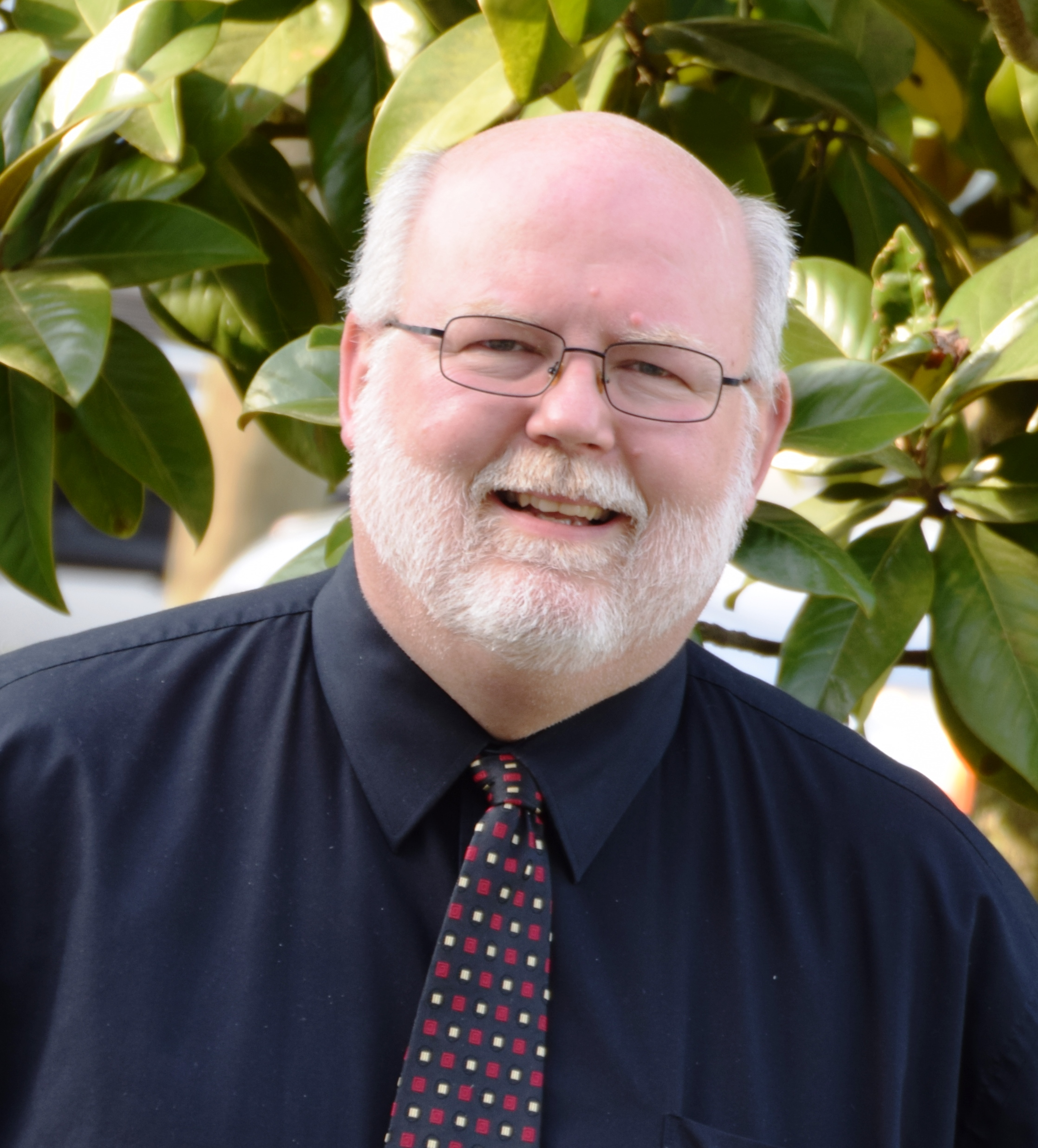 Stanley Neal Helton